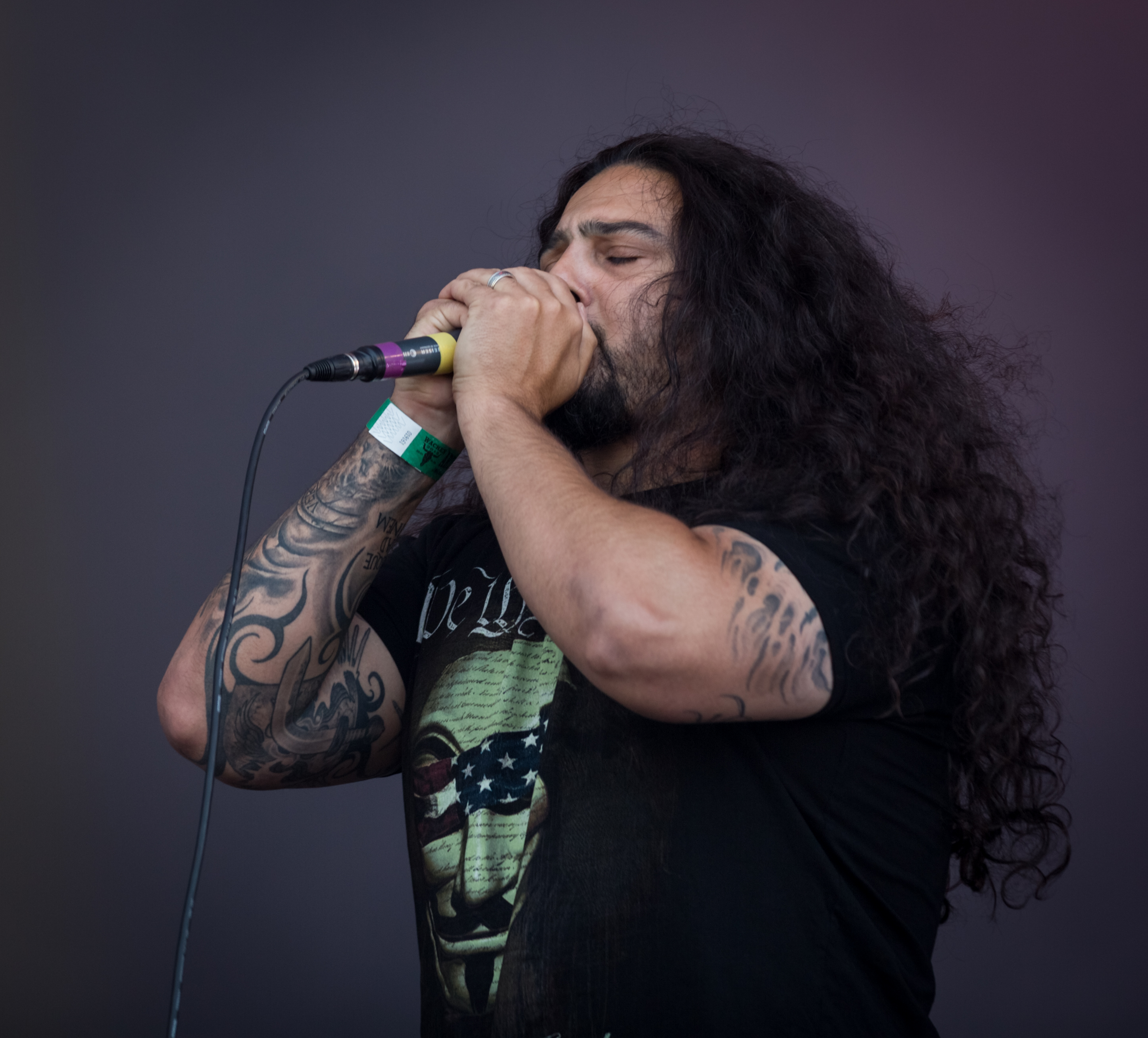 Kataklysm - Wacken Open Air 2015